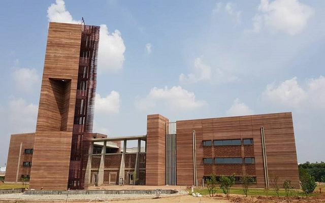 New Telenor Pakistan HeadQuarter 345